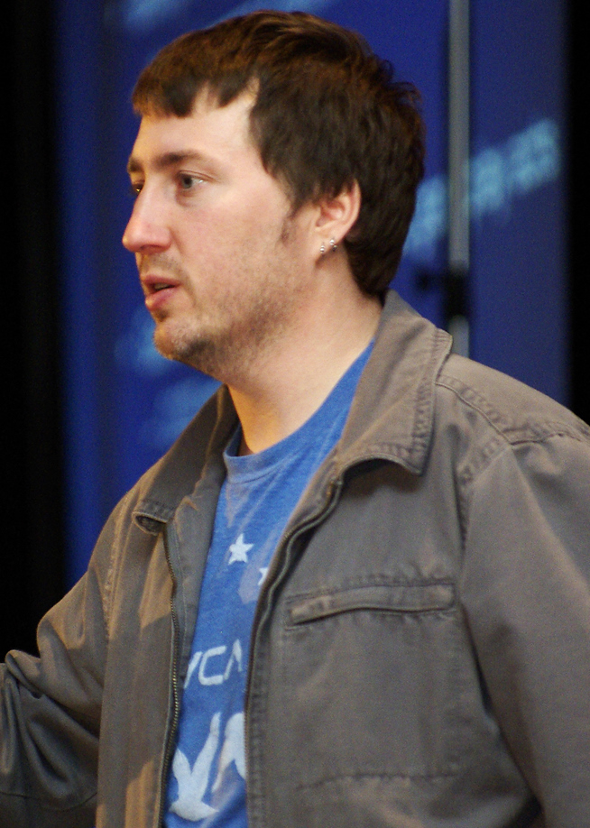 Harvey Smith au Montreal International Games Summit in 2007.